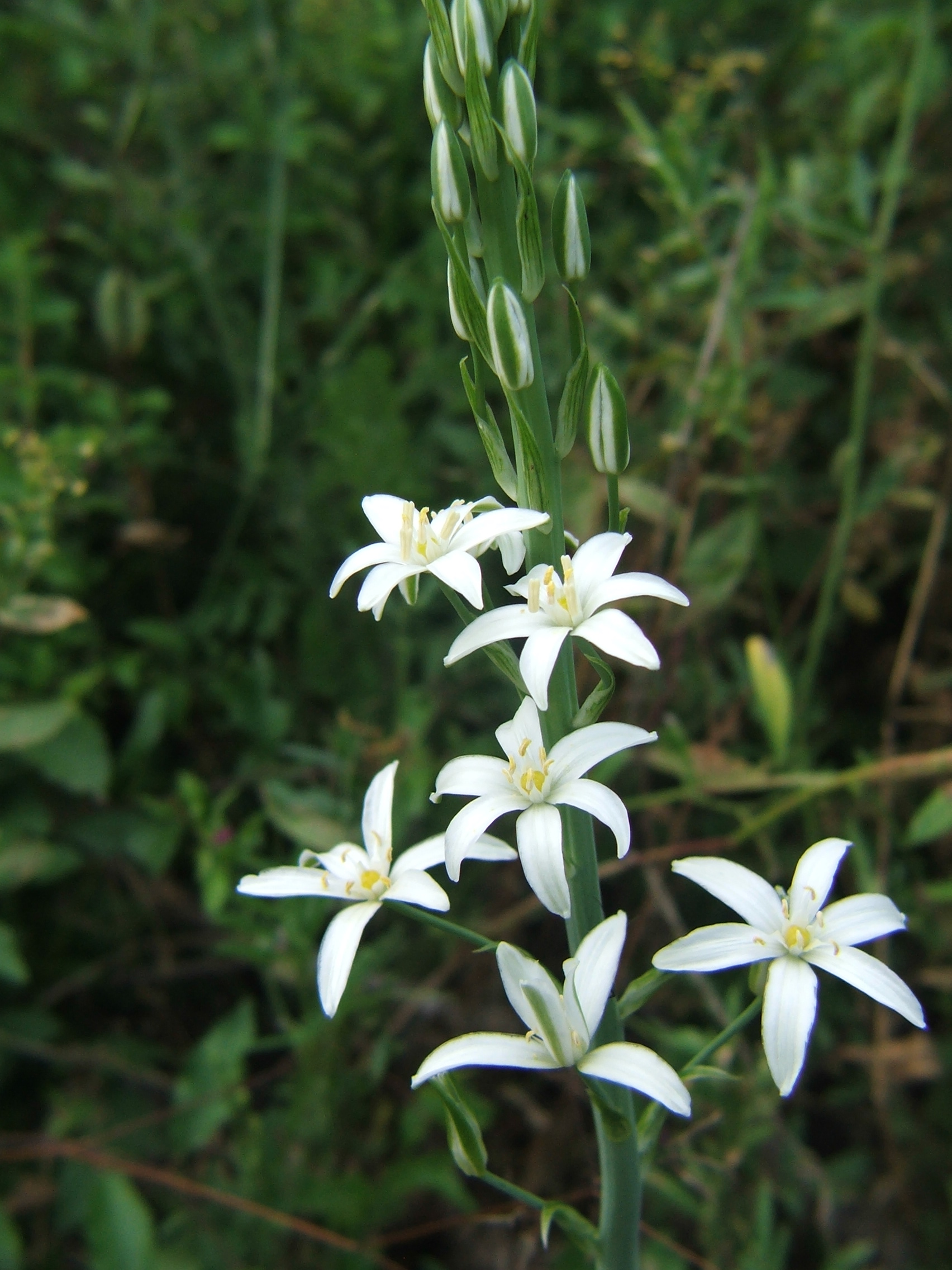 Ornithogalum pyramidale